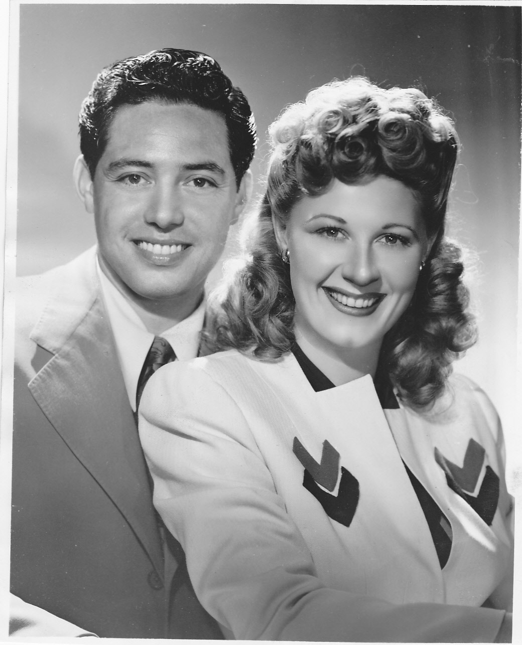 1945 Press Photo Singer Andy Russell And Comedienne Joan Davis On CBS Radio Show